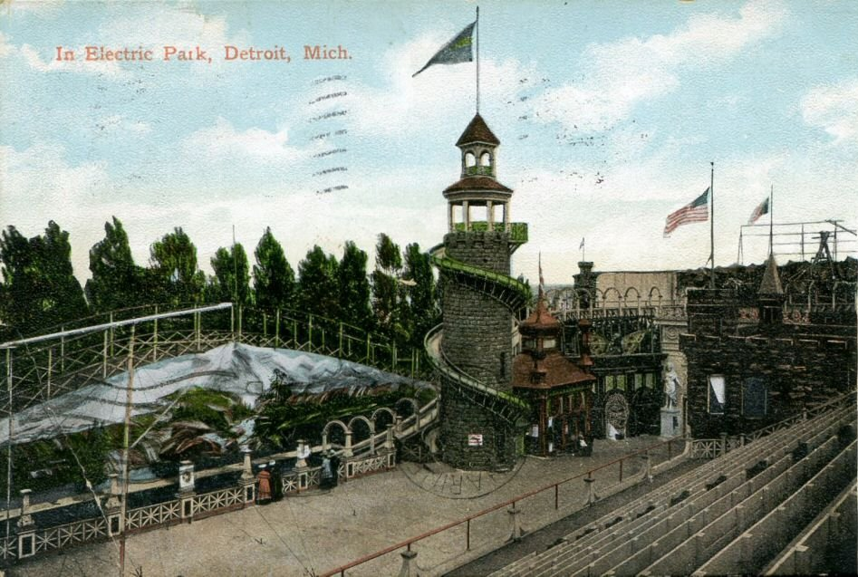 A postcard titled "In Electric Park, Detroit, Mich."